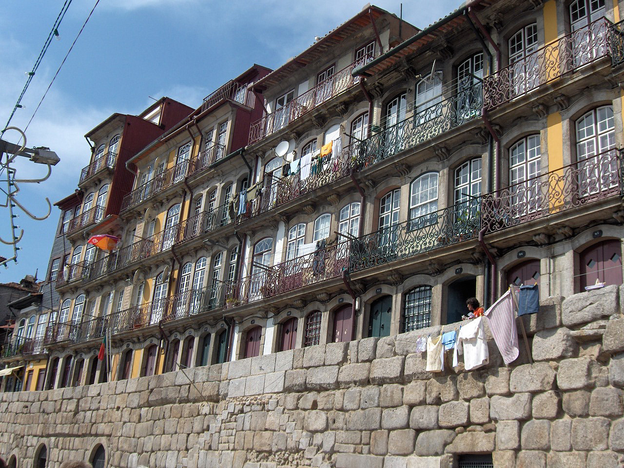 Ribeira, old district (protected by UNESCO) in Porto, Portugal